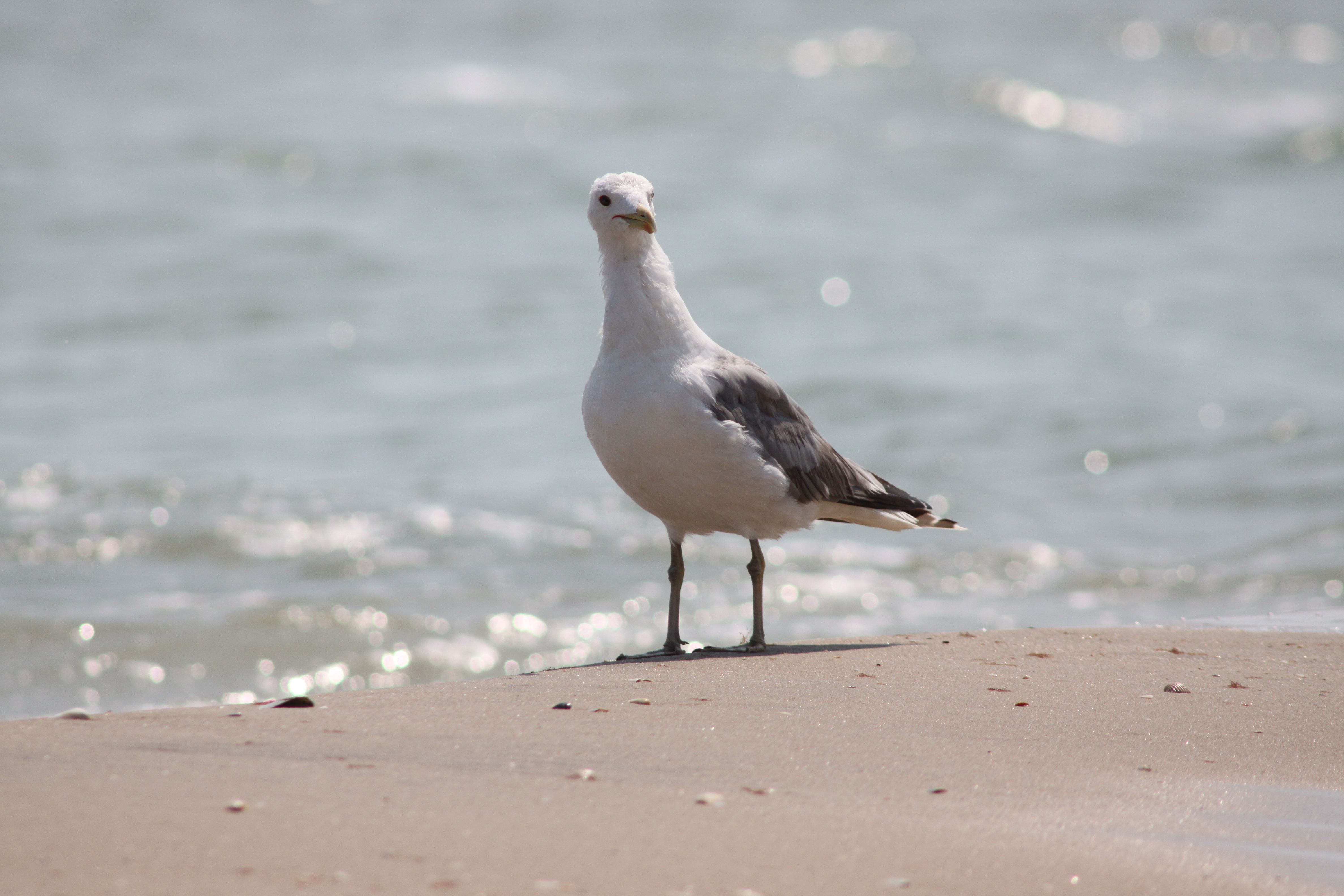 gull